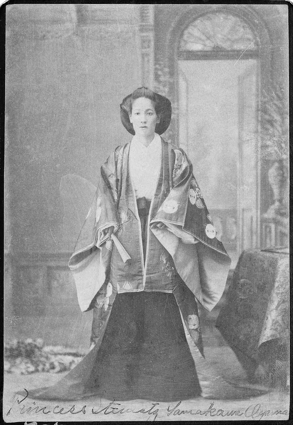 Sutematsu Yamakawa (1860–1919) in formal court robe.